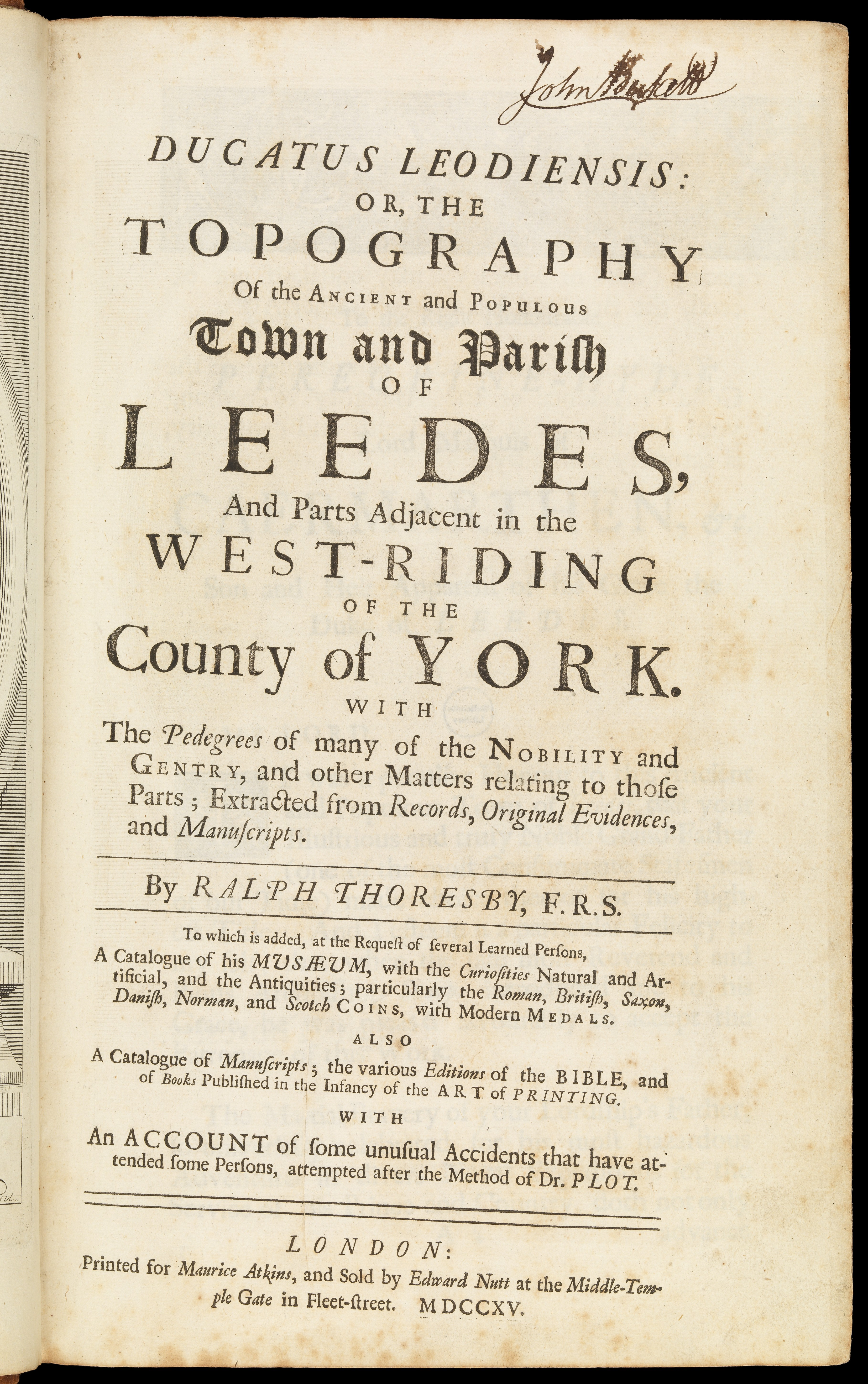 Ducatus leodiensis, or, The topography of the ancient and populous town and parish of Leedes, and parts adjacent in the West-Riding of the county of York : with the pedigrees of many of the nobility and gentry, and other matters relating to those parts; extracted from records, original evidences, and manuscripts / By Ralph Thoresby. To which is added ... a catalogue of his museum ... also a catalogue of manuscripts; the various editions of the Bible, and of books published in the infancy of the art of printing. With an account of some unusual accidents that have attended some persons, attempted after the method of Dr. Plot. London : Printed for Maurice Atkins, and sold by Edward Nutt, 1715. Medical Photographic Library